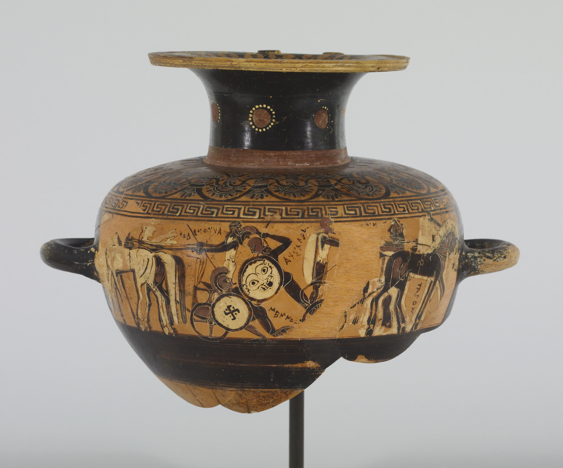 This "hydria", a water-jug, depicts a battle from the Trojan War in which two of the war's greatest heroes, Achilles and Memnon, clash in the presence of their mothers, the goddesses Thetis and Eos. Each warrior has his chariot standing by, with charioteers at the ready. Inscriptions, in the Corinthian alphabet, identify the figures. The painter was obviously proud of his ability to write, a skill that was not widespread.